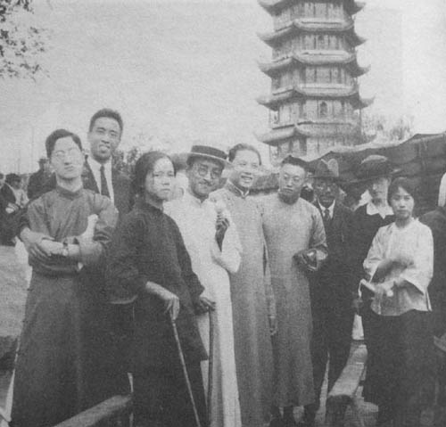 Hsu Chih-mo, Hu Shih, Wang Ching-wei and others were in Hangzhou.